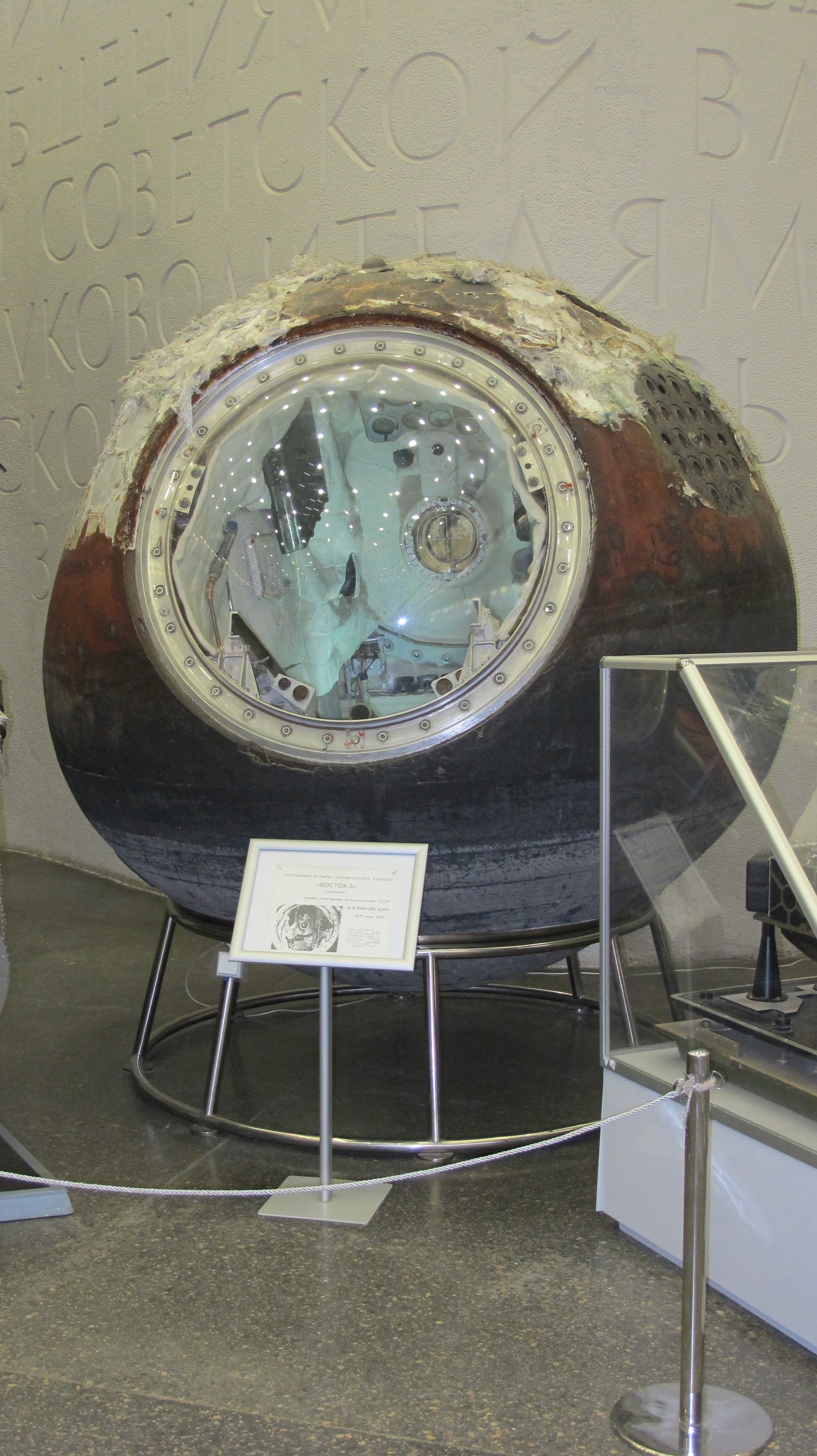 Wikiexpedition to Kaluga 2016-06-11.